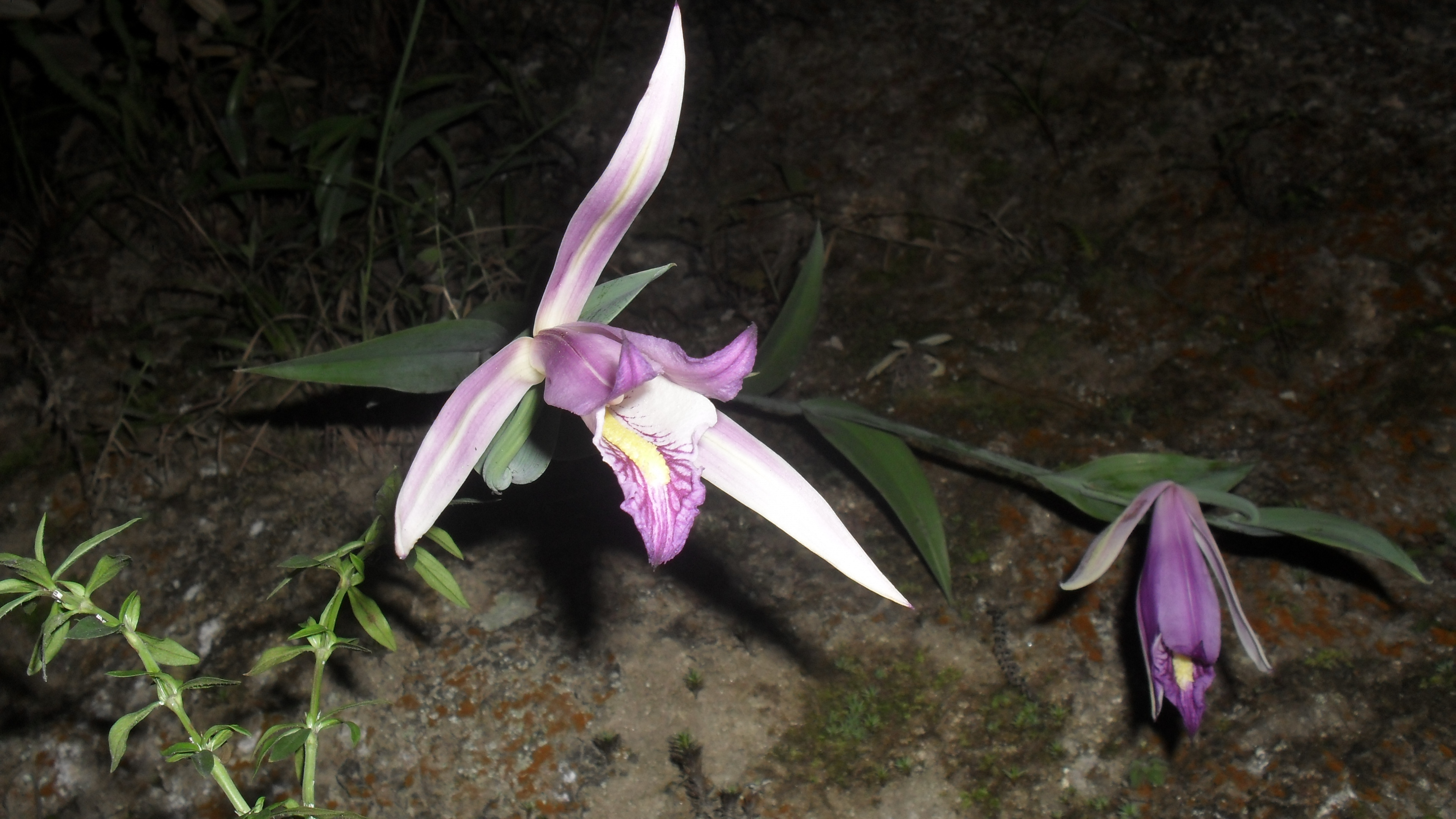 A picture taken of a Cleistes libonii flower at brazilian Mata Atlântica.